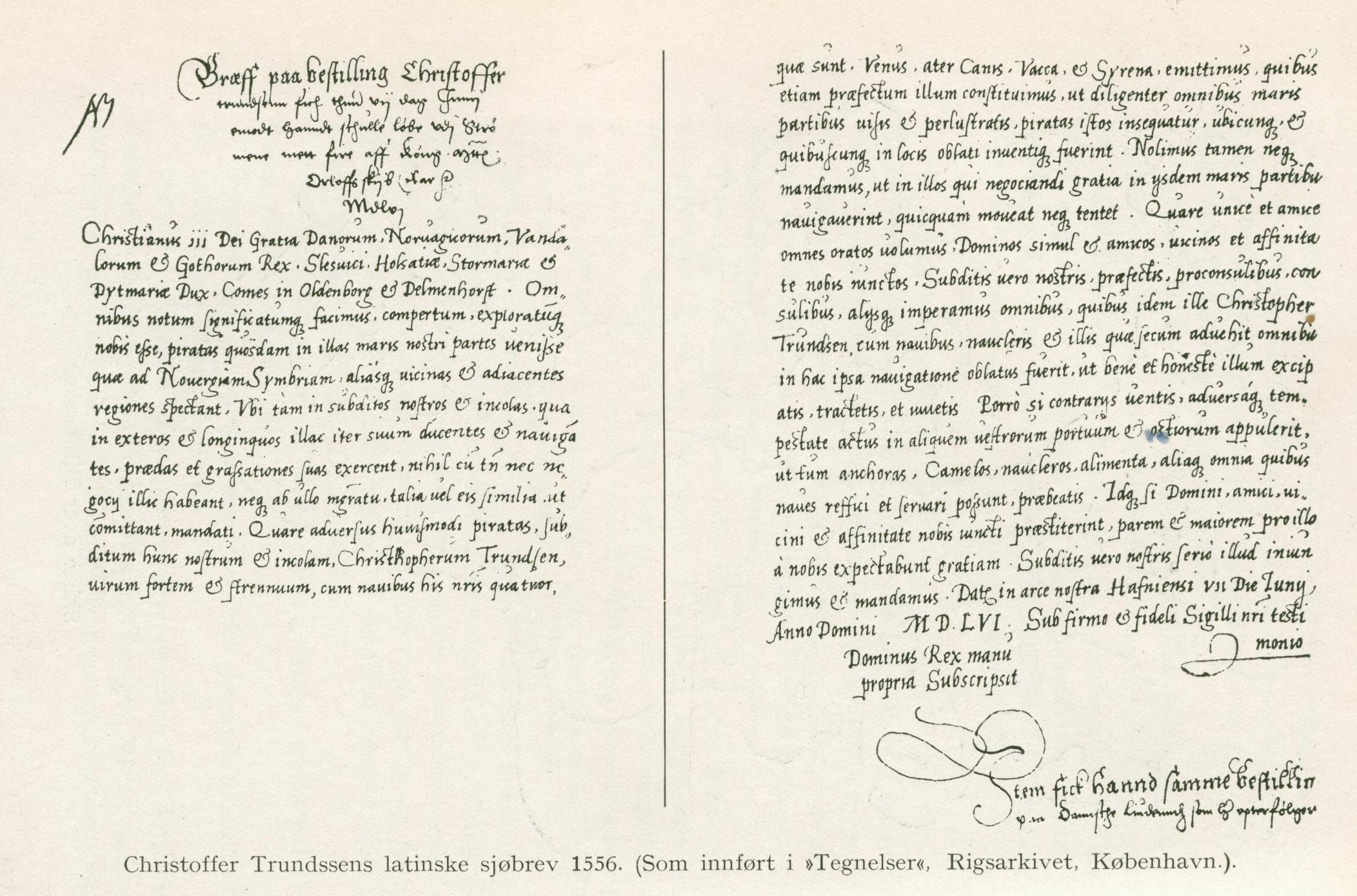 Seafaring papers of Kristoffer Throndssen; he was travelling under foreign protection during the years of wartime piracy against the Danish King; also serving the to fight for other sovereigns.